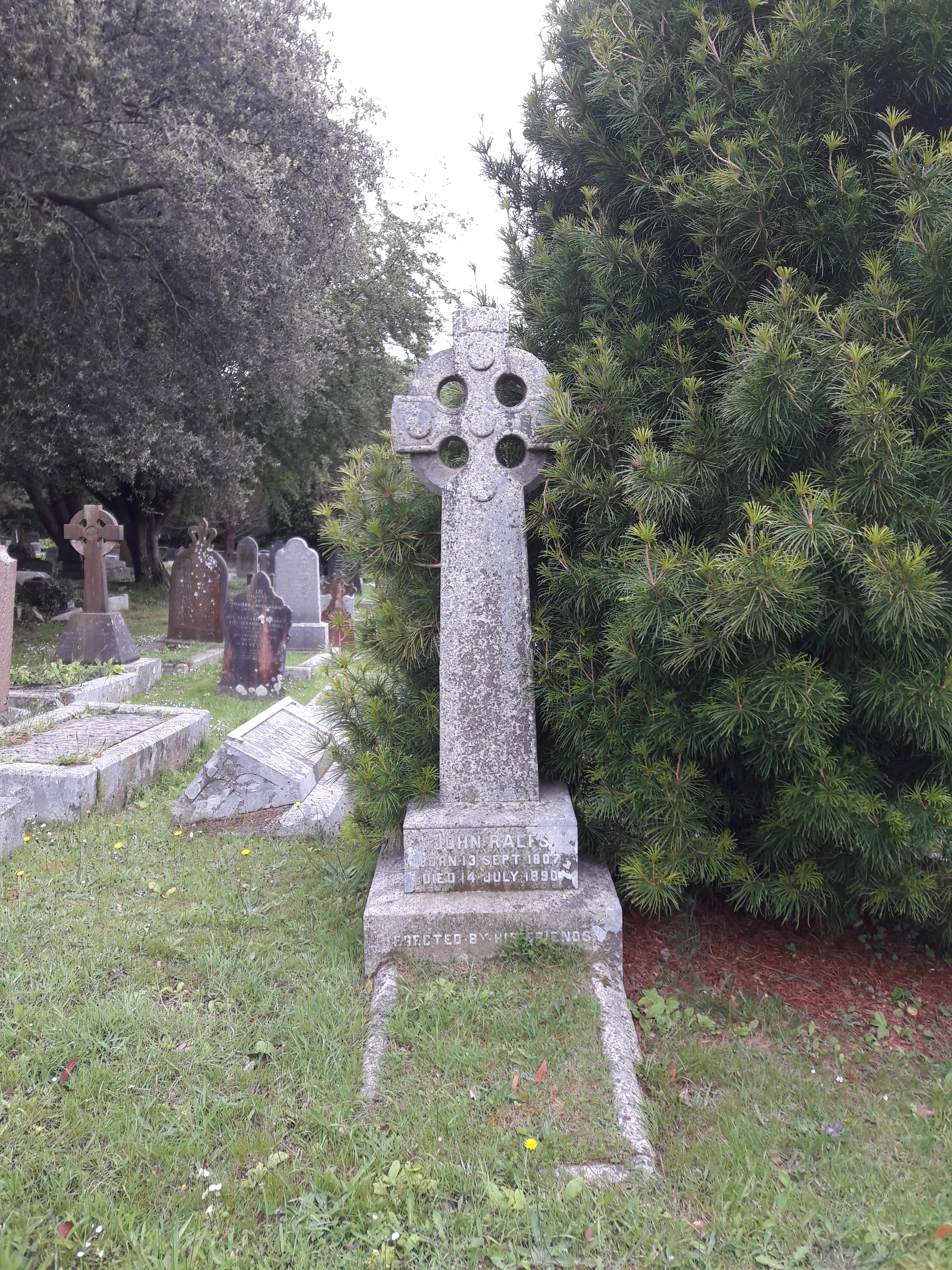 John Ralfs (1807-1890) grave at St Clare Cemetery, Penzance.